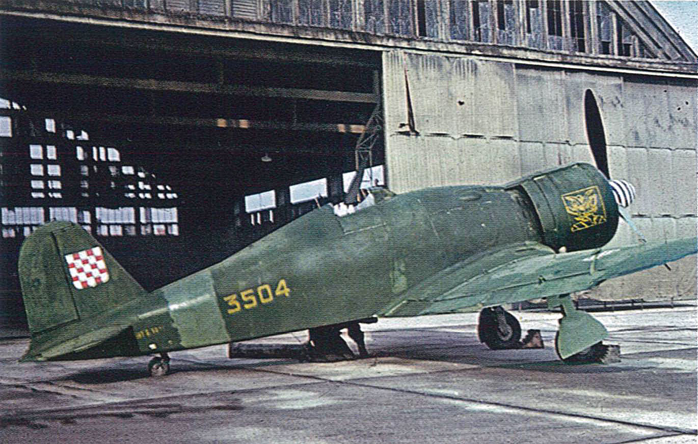 Fiat-G50-Freccia-Croatian